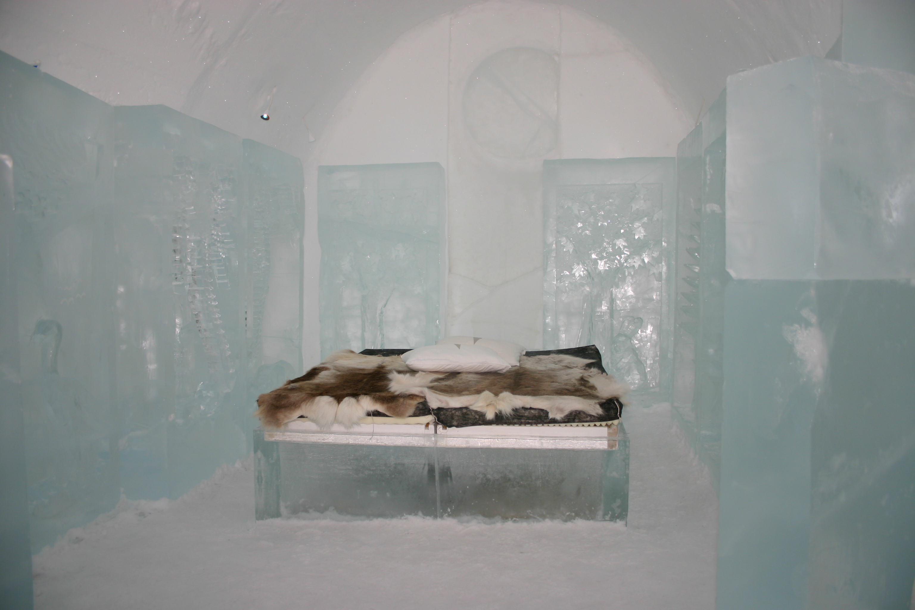 The Ice Hotel in Sweden. The Ice Hotel near the village of Jukkasjärvi, Kiruna, Sweden